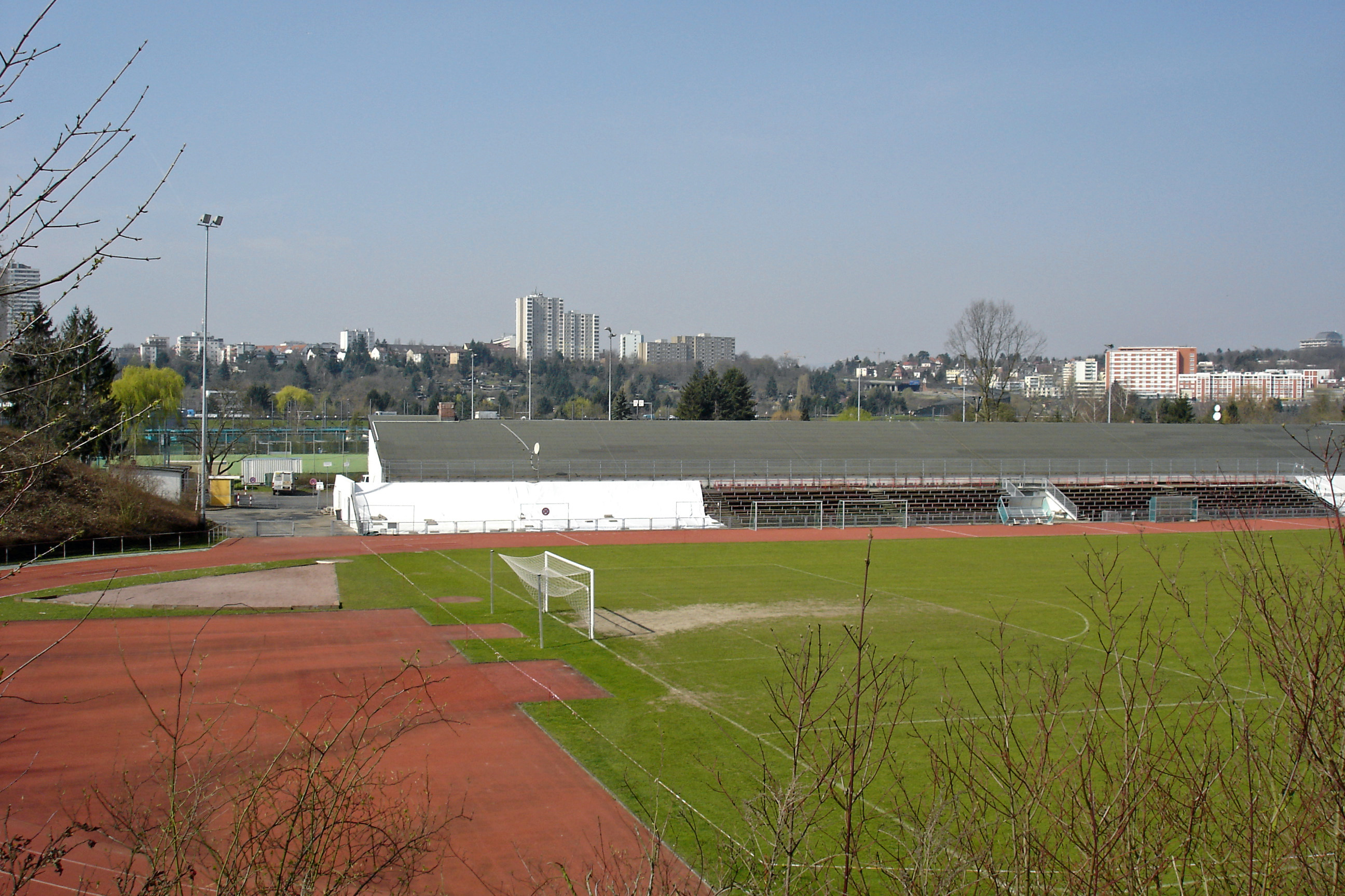 Sports ground Stadium at Riederwald of Eintracht Frankfurt in the borrough of Seckbach in Frankfurt, Hesse, Germany